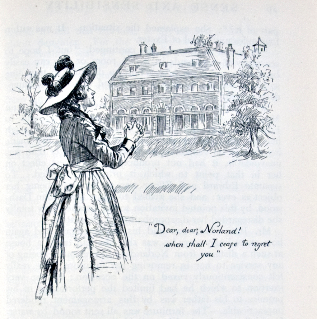 "Dear, dear Norland! when shall I cease to regret you!" - Marianne mourning the loss of her childhood home. Austen, Jane. Sense and Sensibility. London: George Allen, 1899, page 25.